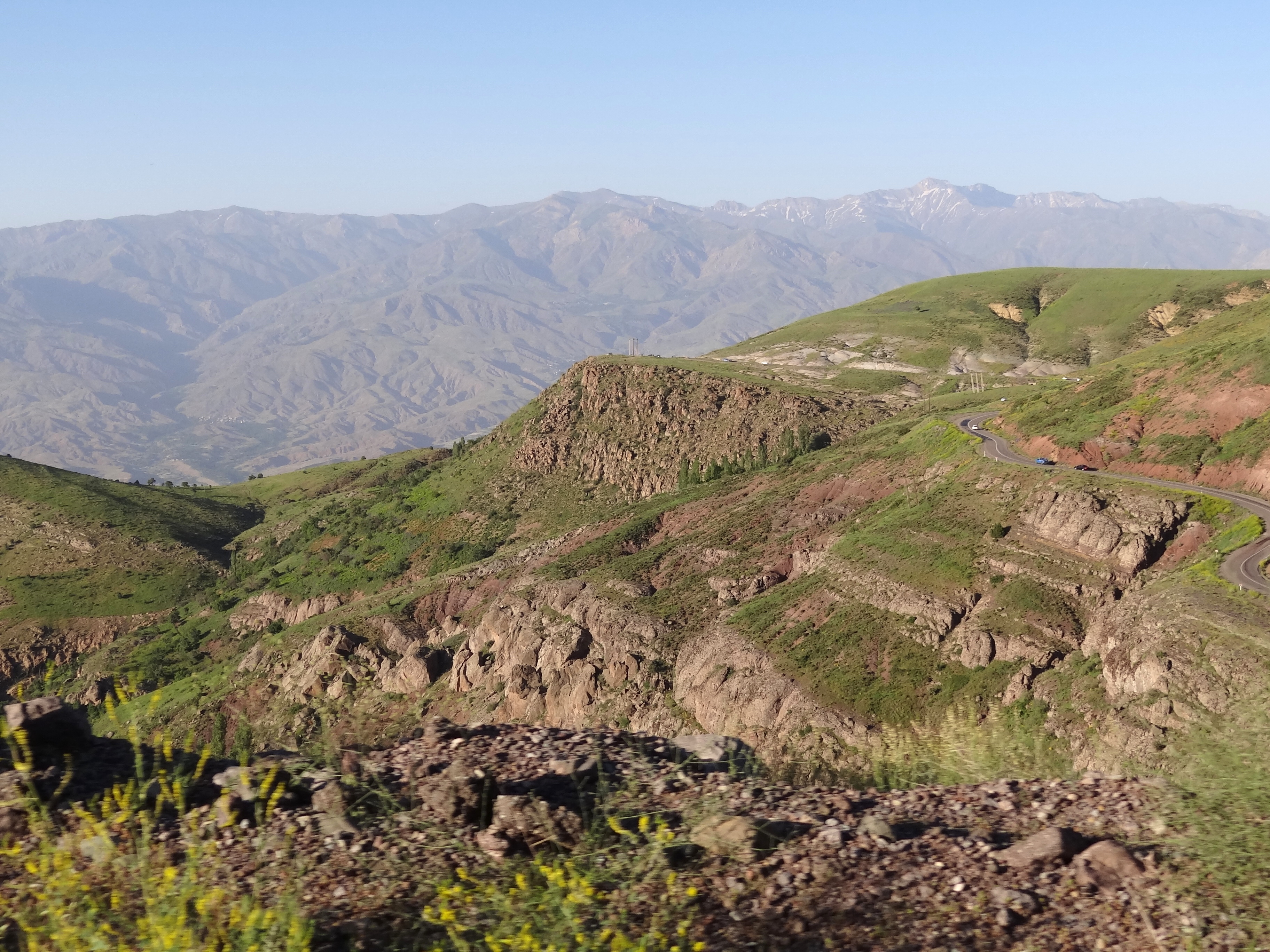 Mountain Scenery in the Alborz Range, Alamut, Qazvin, Northwestern Iran